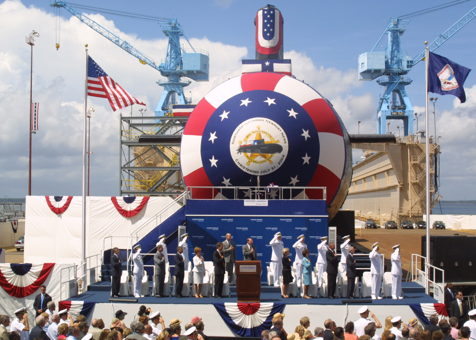 USS Texas Christening (SSN-775)